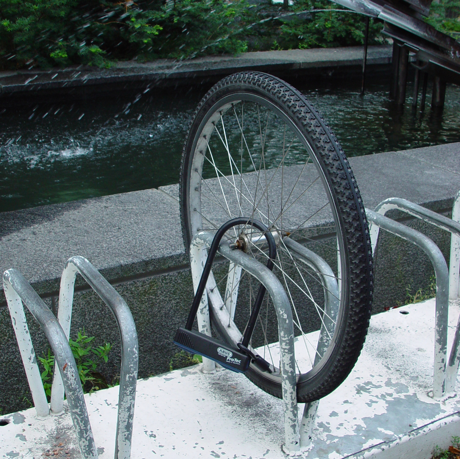 Stolen bicycle with only front wheel left. The scene is in front of a public library in Helsinki, Finland. Note that the wheel itself could easily be stolen by cutting the spokes, if the rim and hub were of any value to the thief.